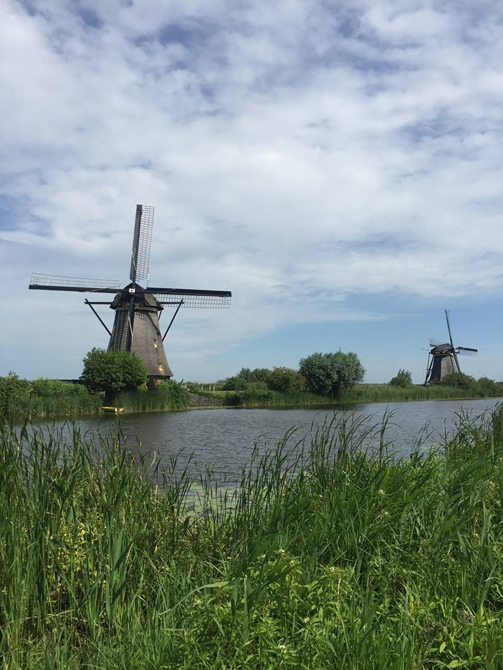 Windmills, Kinderdijk, Netherlands